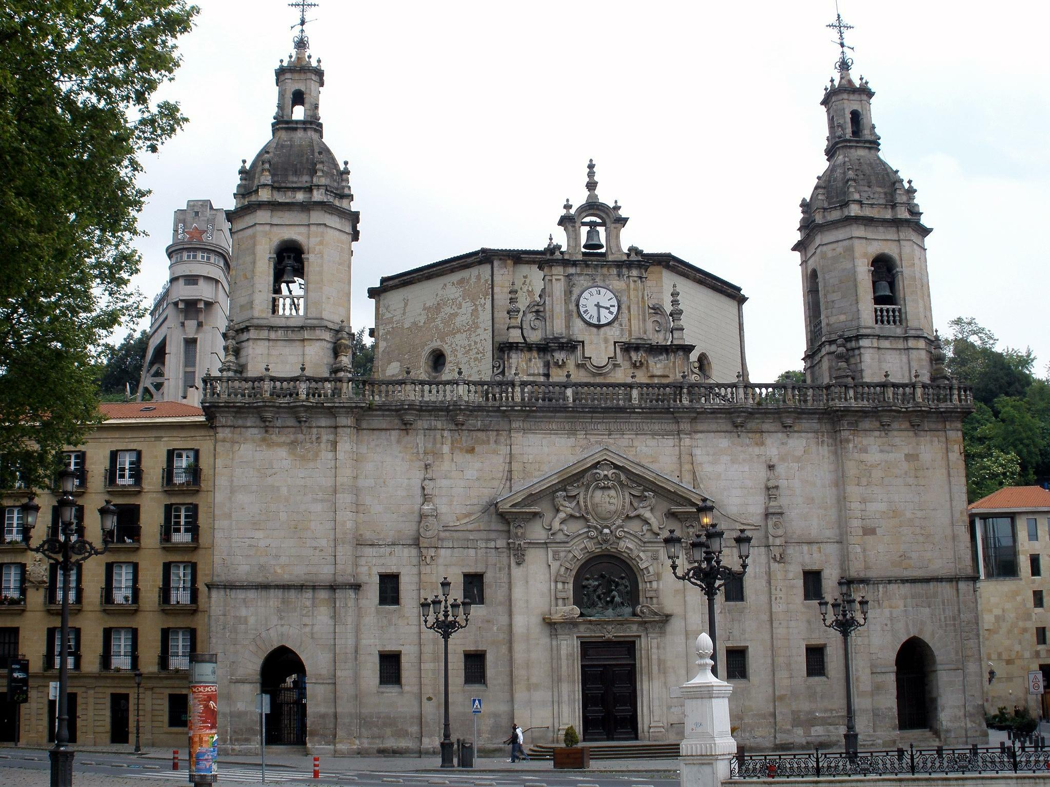 Iglesia de San Nicolás de Bari, Bilbao (País Vasco, España)